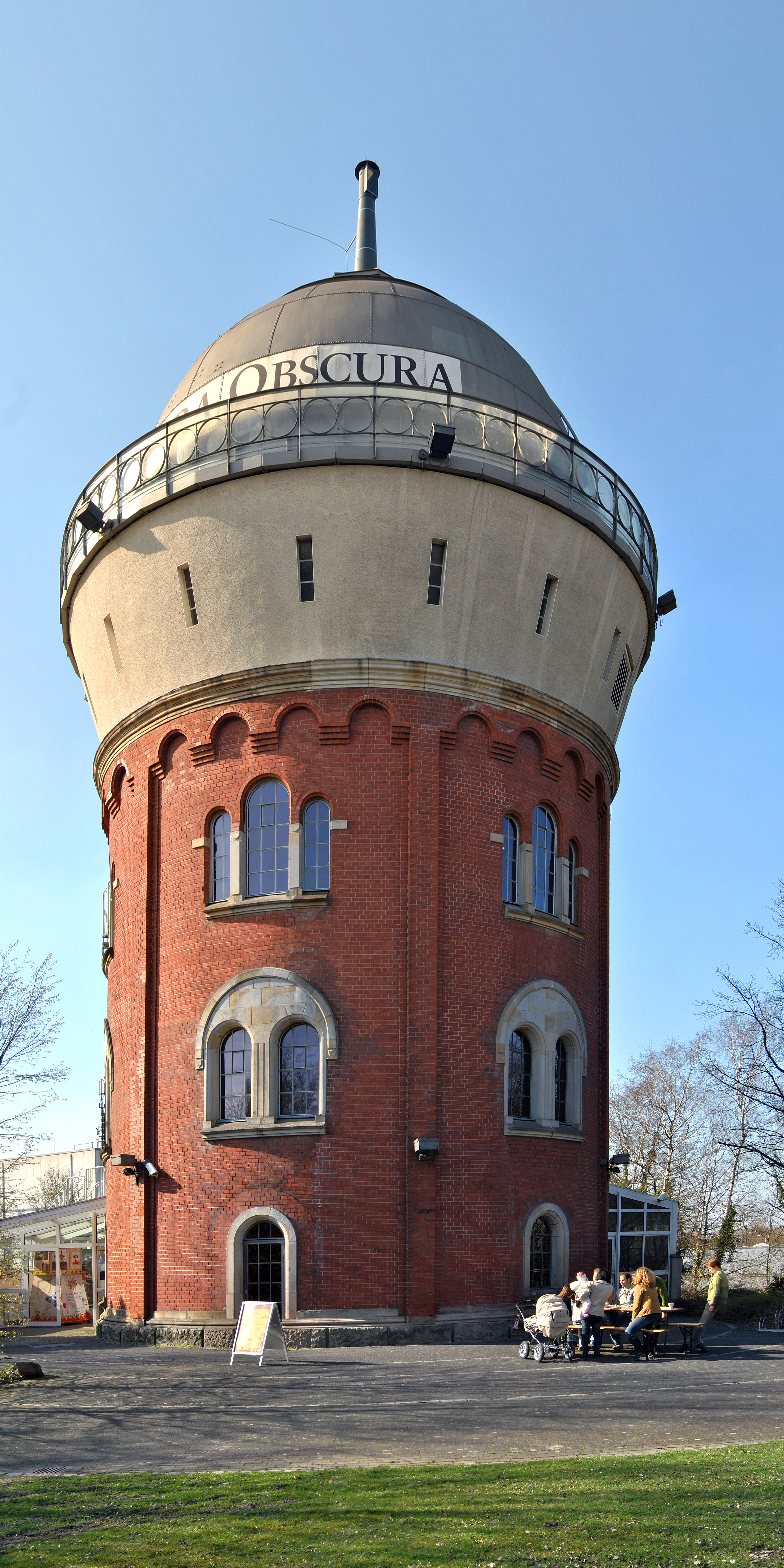 Prehistory museum of movies (German, "Museum zur Vorgeschichte des Films") in Mülheim (North Rhine-Westphalia, Germany): south-east side